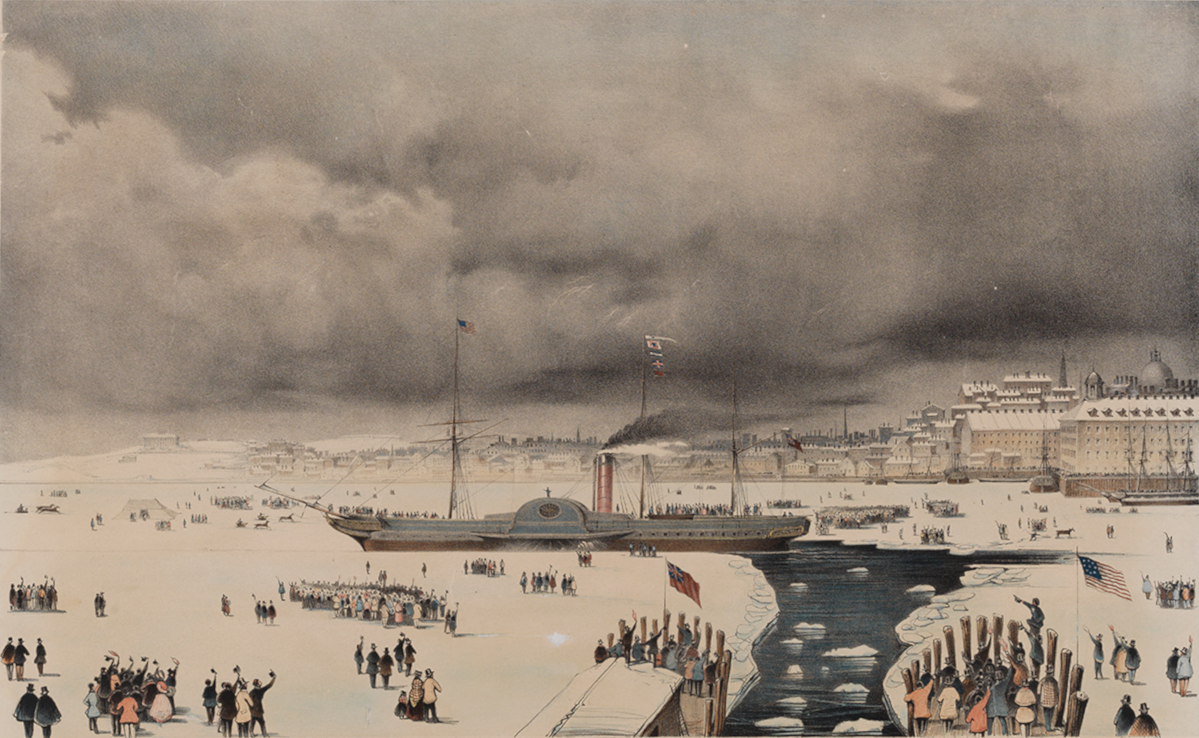 This Print representing the B & N.A. Royal Mail Steamship Britannia John Hewitt, Commander, leaving her dock at East Boston on the 3rd of February 1844 on her voyage to Liverpool (through) a canal cut in the ice 7 miles long PAH8888